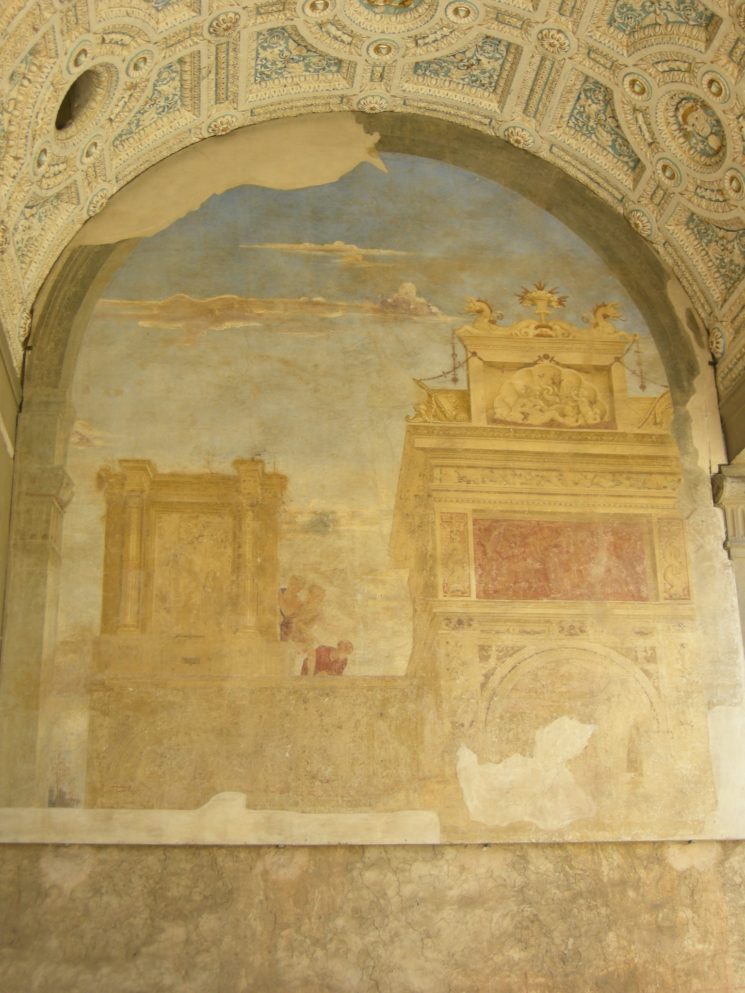 Renaissance fresco by Filippino Lippi at the Upper loggia of Villa Medicea in Poggio a Caiano — Tuscany.